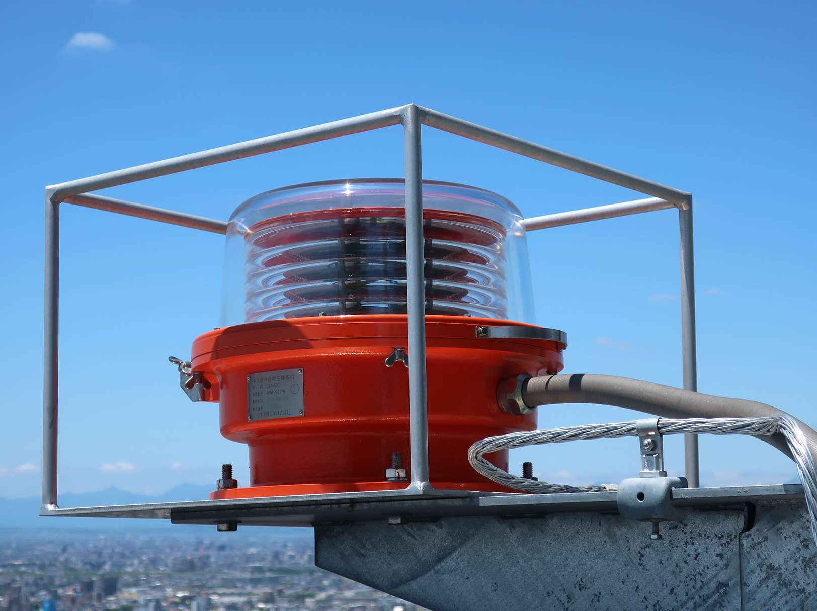 Nippon Koki Kogyo OM-6C LED Medium-intensity Obstacle Light with steel frames for lightning protection.